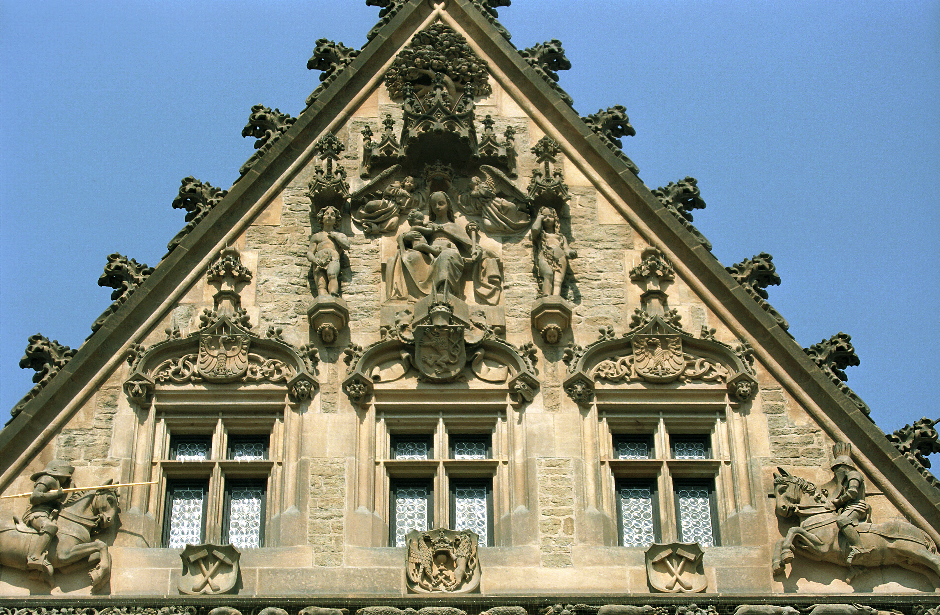 Kutná Hora, The Gothic Stone House